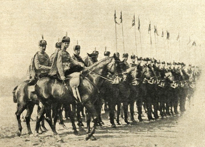 Parade of the 3rd Elisavetgrad hussar regiment in Peterhof. On the left flank of the regiment — Honorary Chief Grand Duchess Olga Nikolaevna.